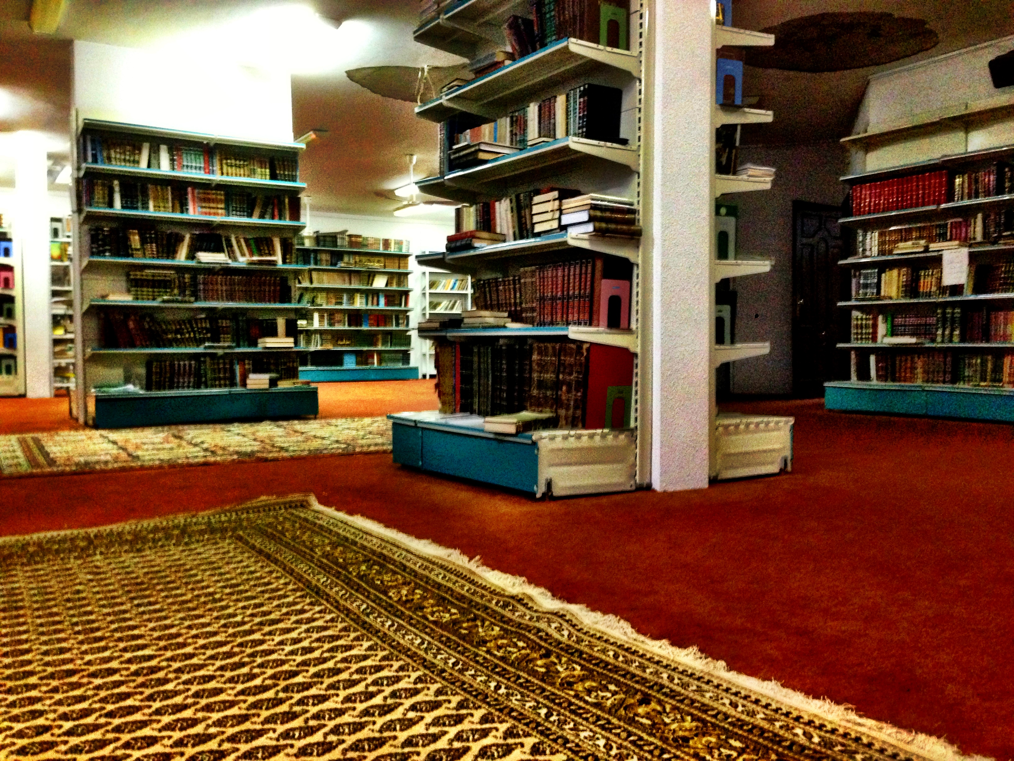 The library where Shaykh Rabee' hold his classes.